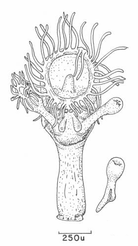 Loxosomella macginitieorum new species, with attached and detached buds.